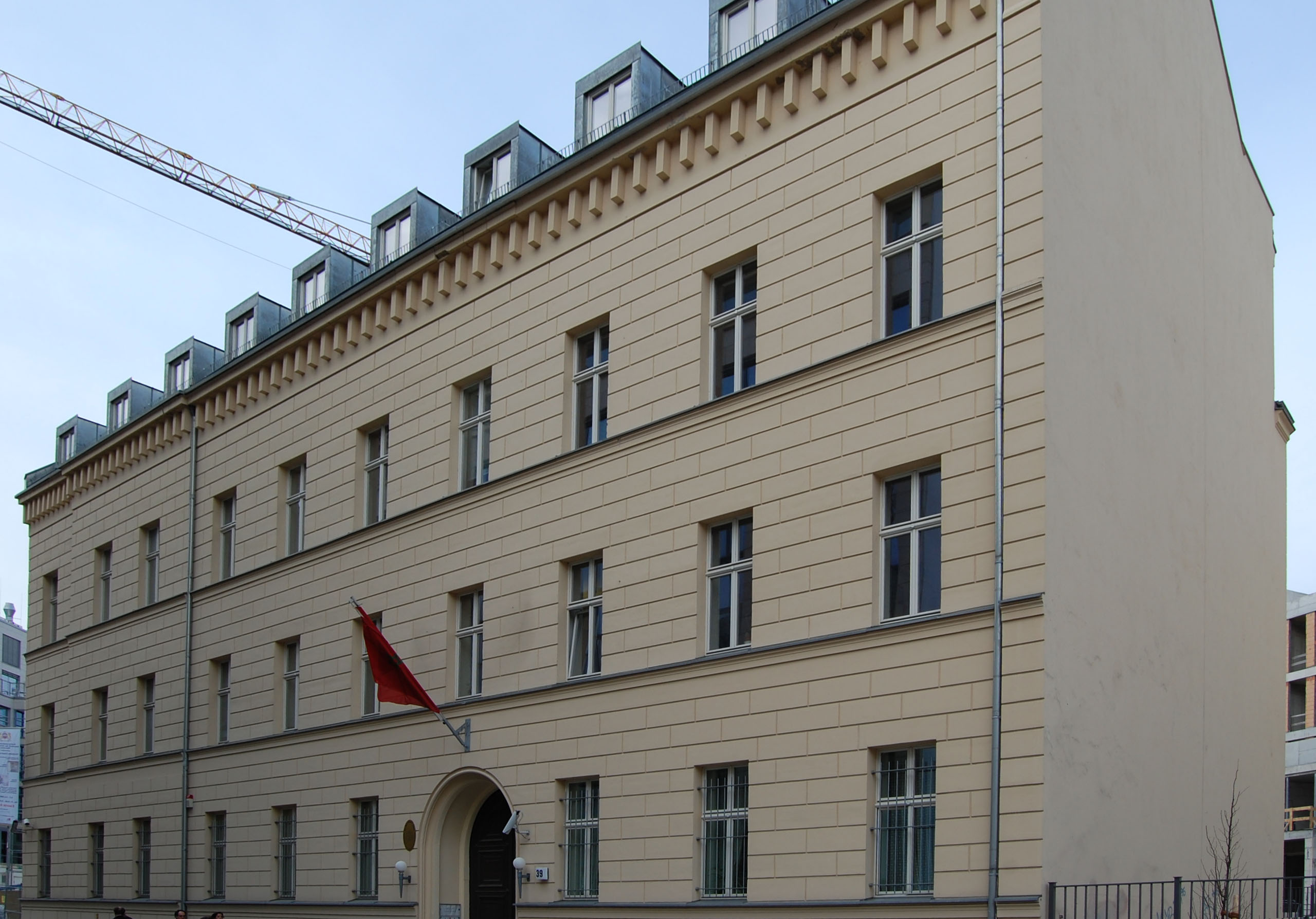 Embassy of Morocco in Berlin